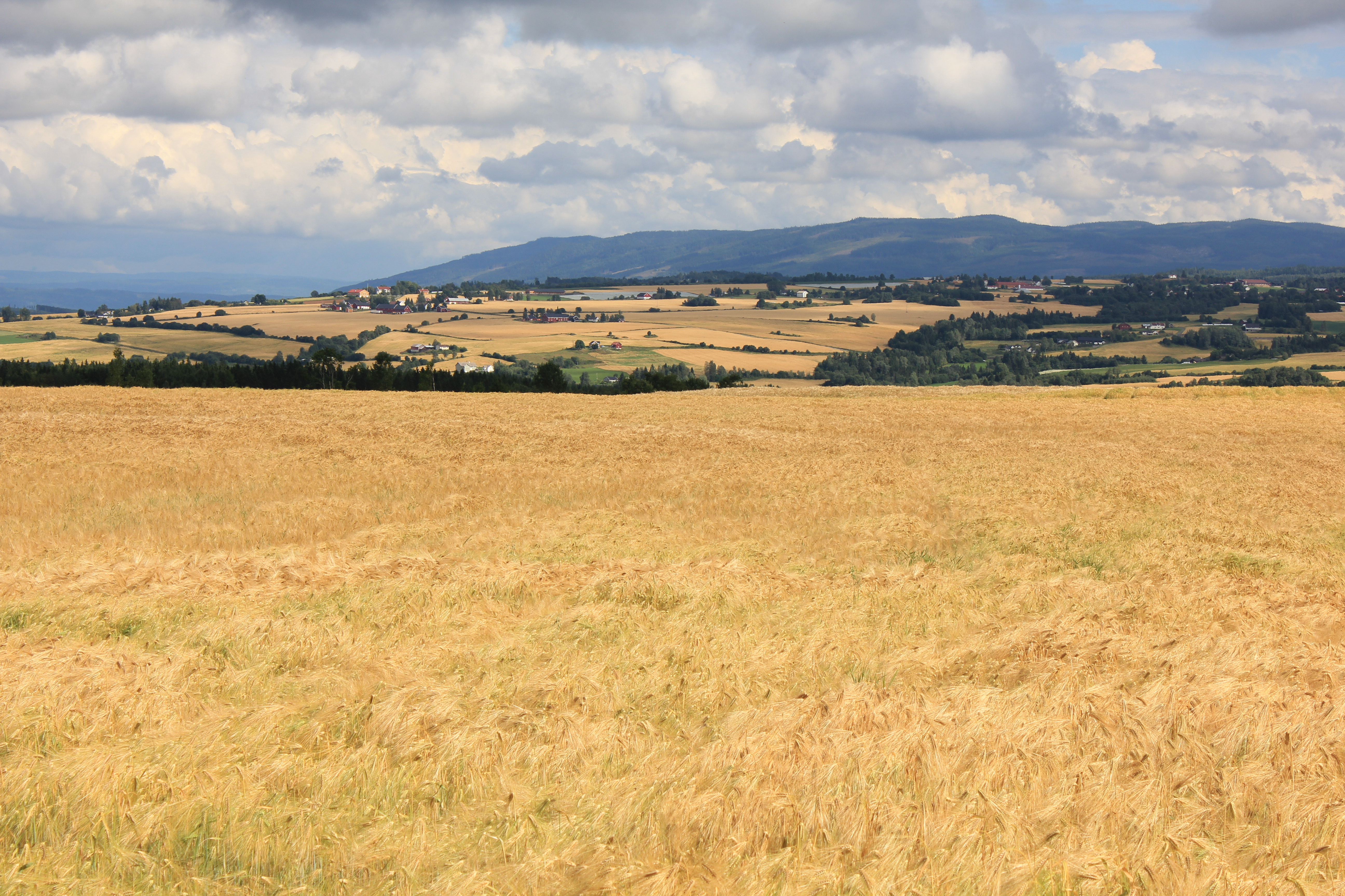 Yellow grain fields at Østre Toten, Oppland, Norway. Totenåsen Hills in the background.